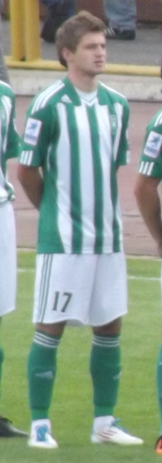 Pavel Golyshev in FC Tom Tomsk